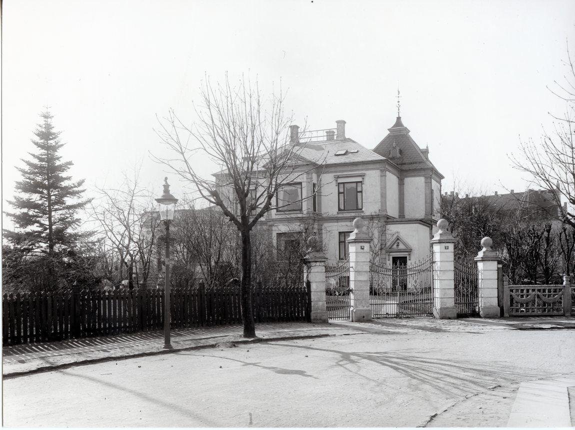 Christians II's Plads 9 Beskrivelse Nu Christian II's Allé. Herman Eberts Villa "Sans Souci".